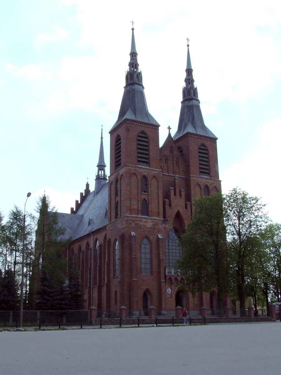 Sacred Heart church in Rzekuń